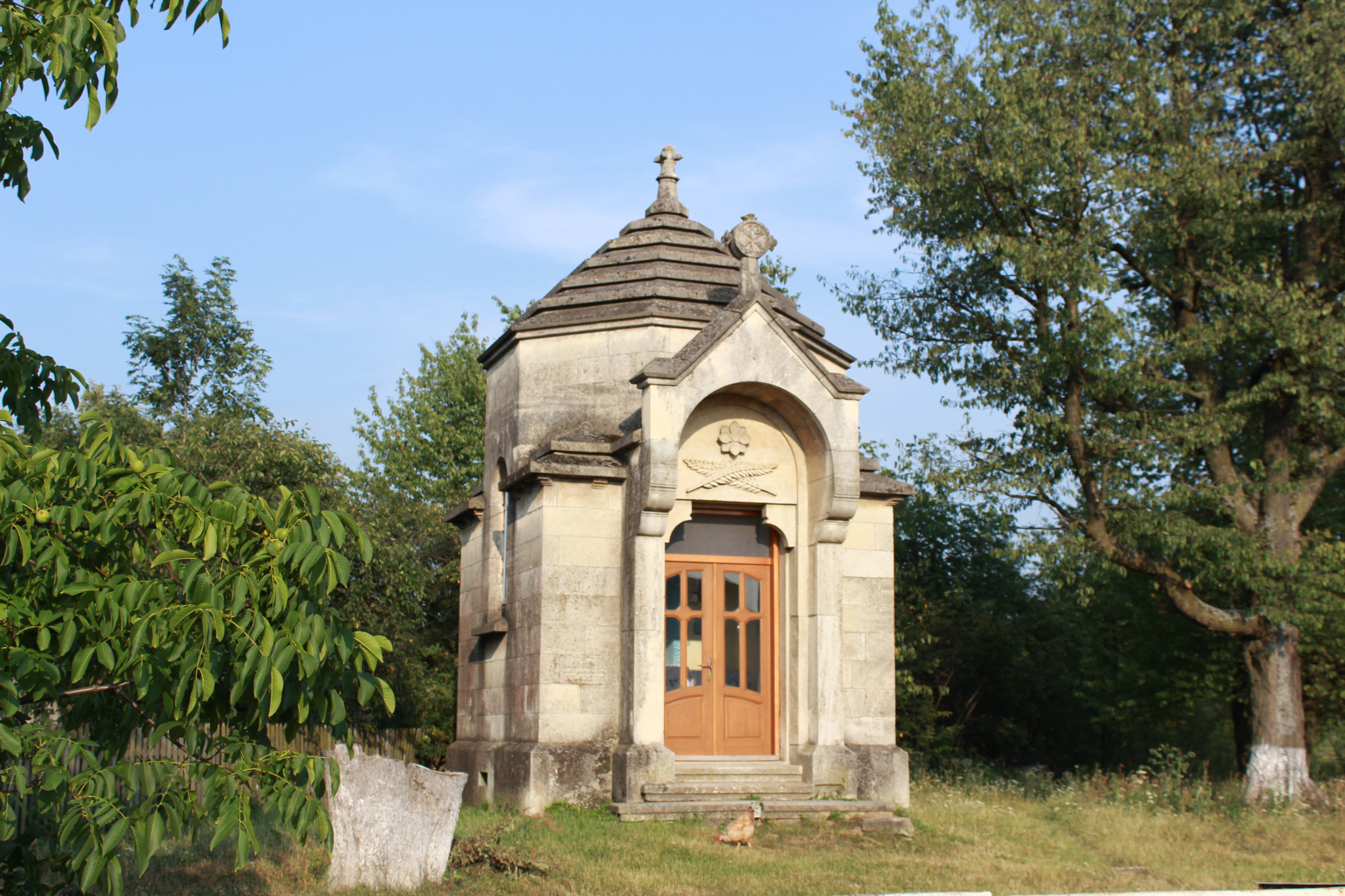 Каплиця в с. Бичківцях Чортківського району, збудована як римо-католицька, станом на 2016 - у користуванні УАПЦ, нині - ПЦУ